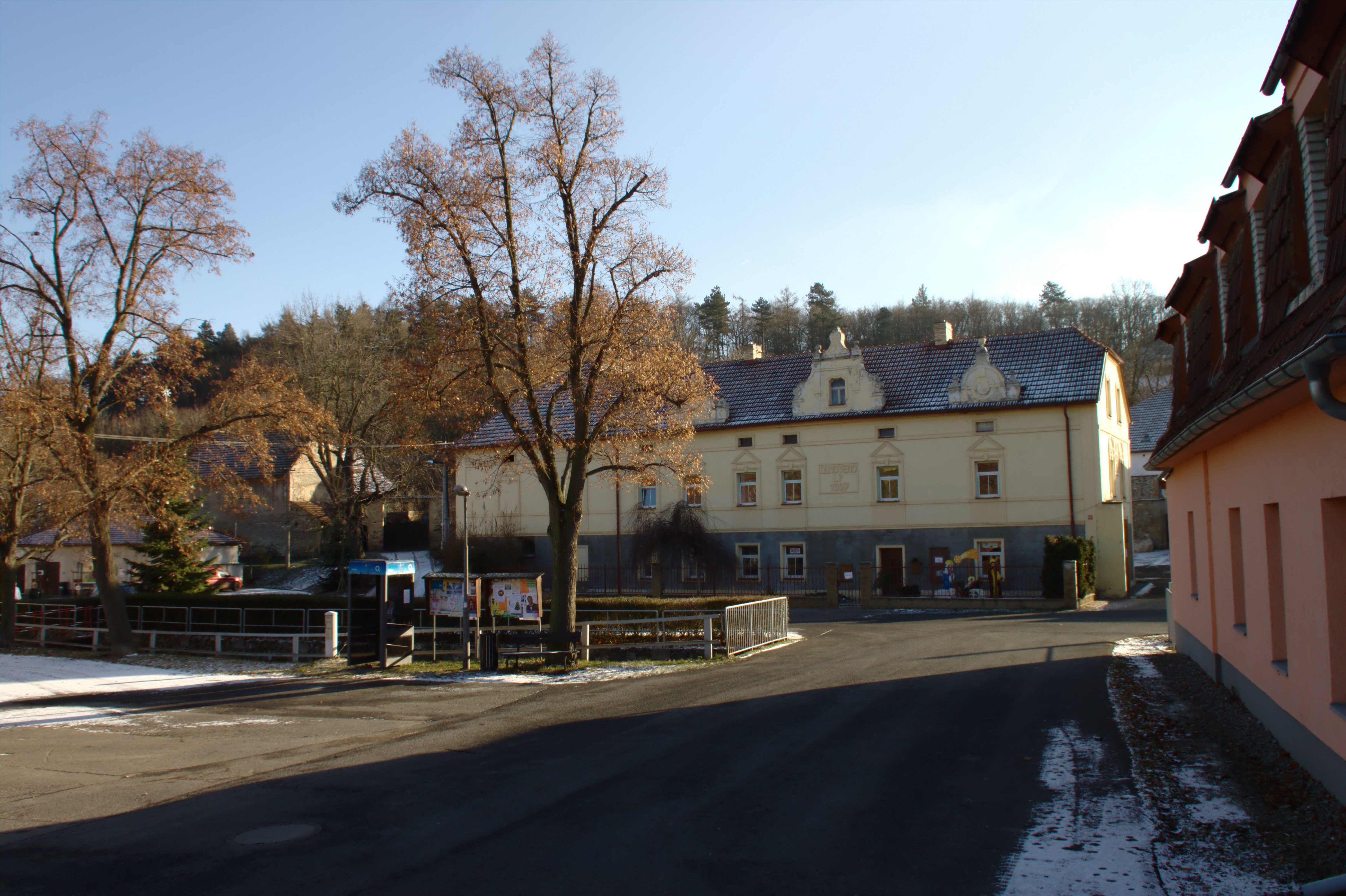 A common in the town of Úholičky, Central Bohemian Region, CZ